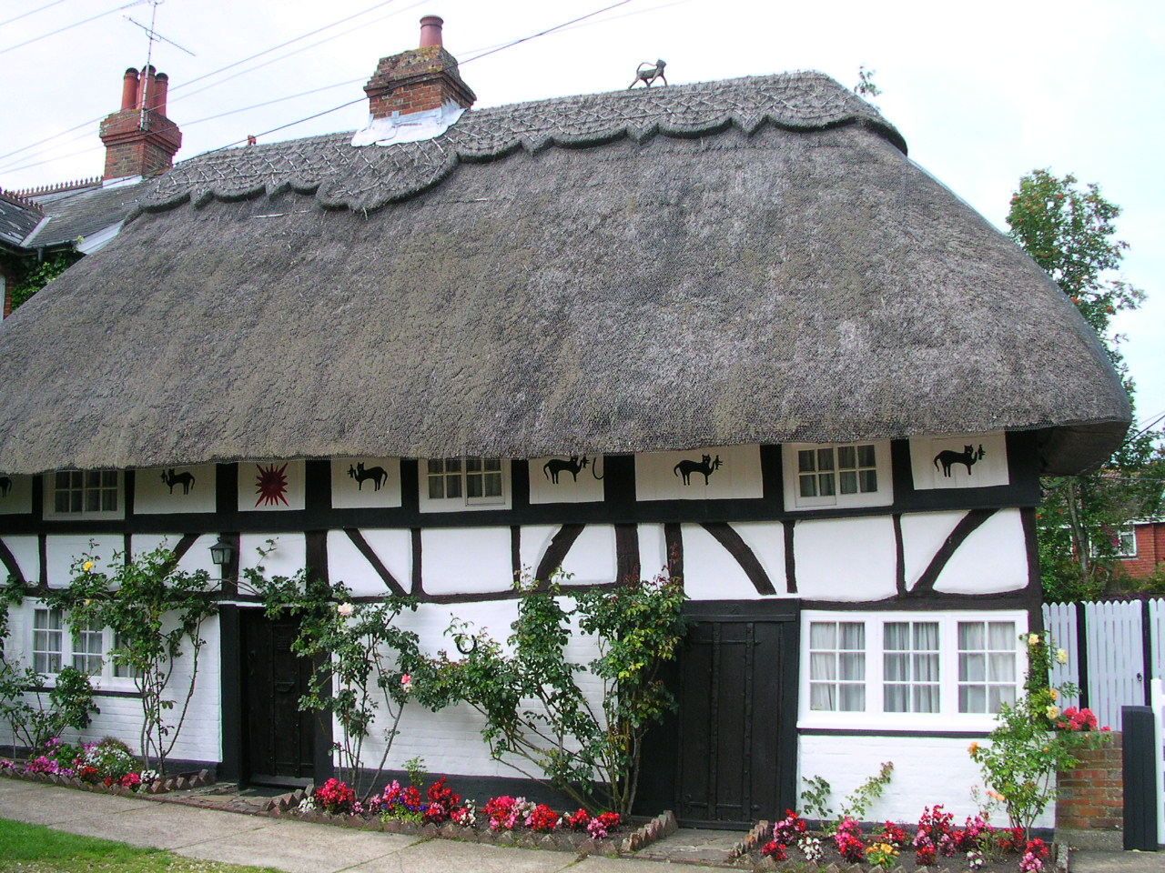 The Cat House at Henfield, West Sussex, England.